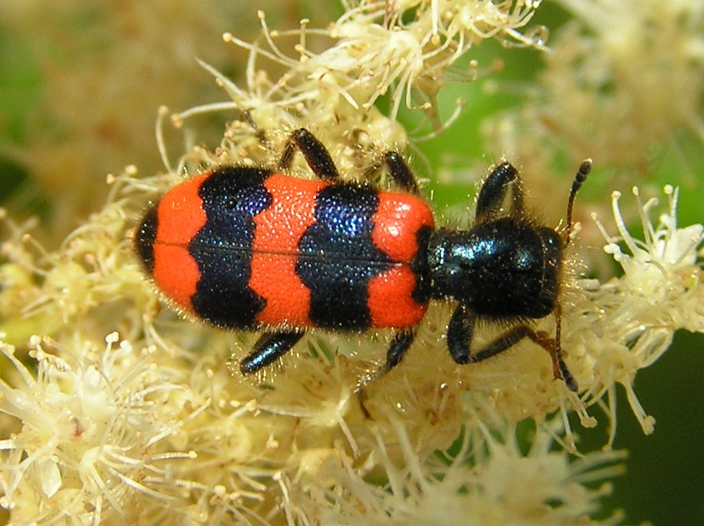 Trichodes apiarius in Aruncus sylvestris